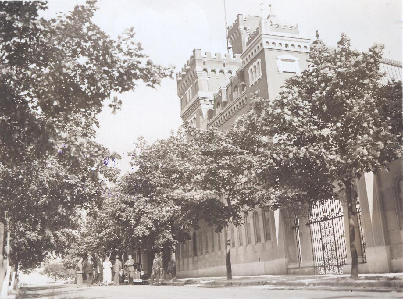 Venedikt Bobchevski and Gusla Choir in front of Hegedűs Villa Gellért-hegy (or Red Villa) in Budapest, 1933.